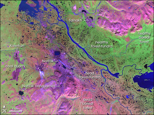 False-color image of Norilsk, Siberia, Russia. Shades of pink and purple indicate bare ground: rock formations, cities, quarries, and places where pollution has damaged the vegetation. Brilliant greens show predominately healthy mixed tundra-boreal forest. Water appears in shades of blue. The Noril’skaya River cuts through the scene, and the forest-tundra terrain on either side is riddled with small “pothole” lakes. Blue-white plumes of smoke (just left of image center) drift southeastward from smokestacks in Noril’sk. The deep and pale pinks downwind of the city, as well as the deep purple in the hillsides immediately outside Noril’sk, are moderately to severely damaged ecosystems. To the northeast of the river, the ecosystems appear healthier. A large coal quarry, one of the sources of electricity in Noril’sk, appears as a purple patch south of the city of Kayerkan.